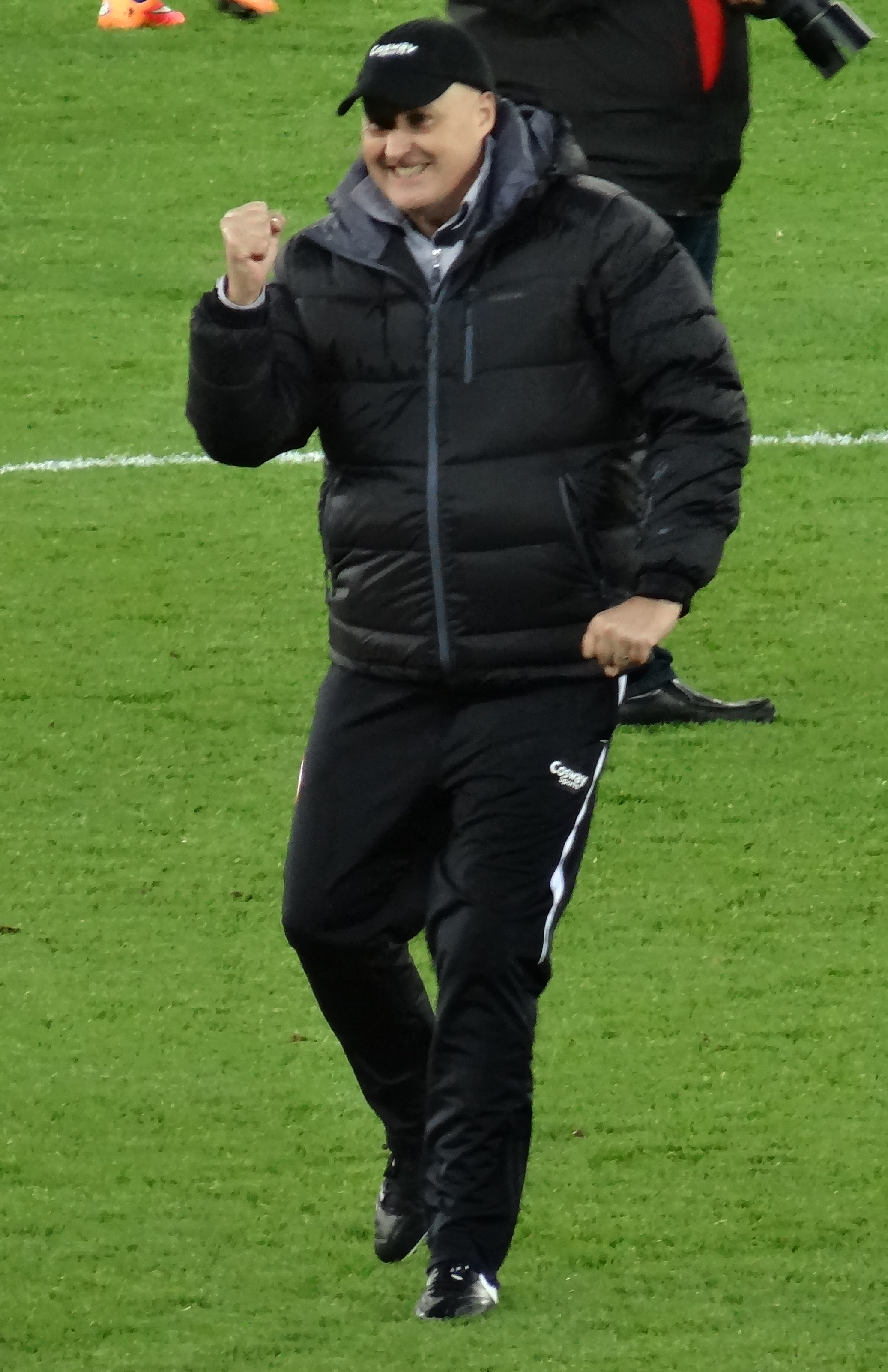 Russell Slade as a Cardiff City manager